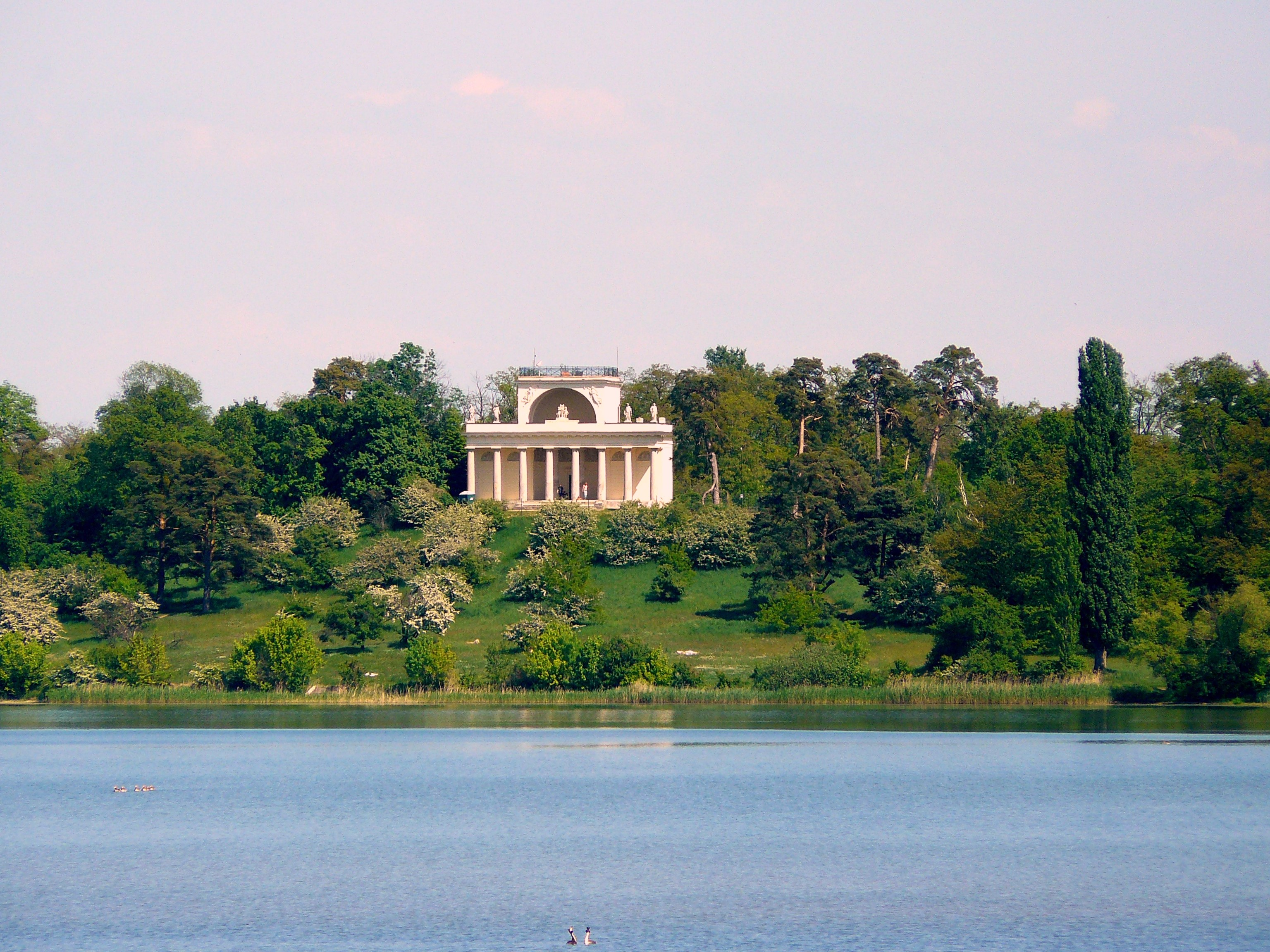 Temple of Apollo